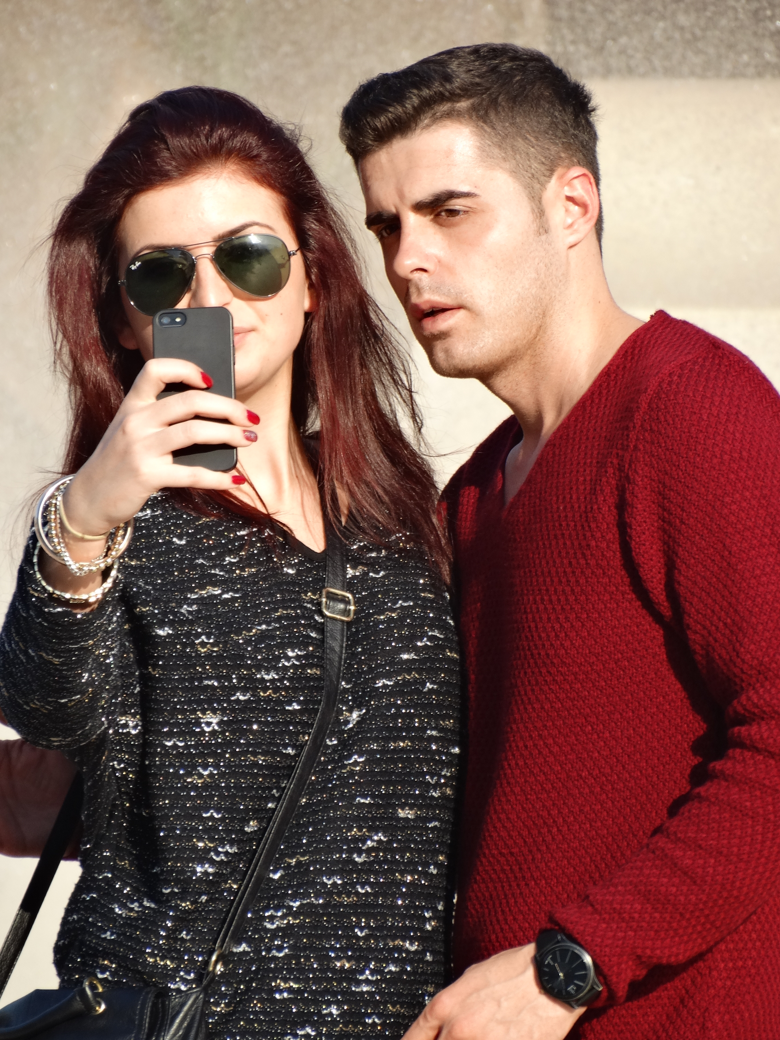 Couple Snap a Selfie - Skopje - Macedonia